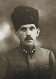 Kiazm Pasha (Ozalp)